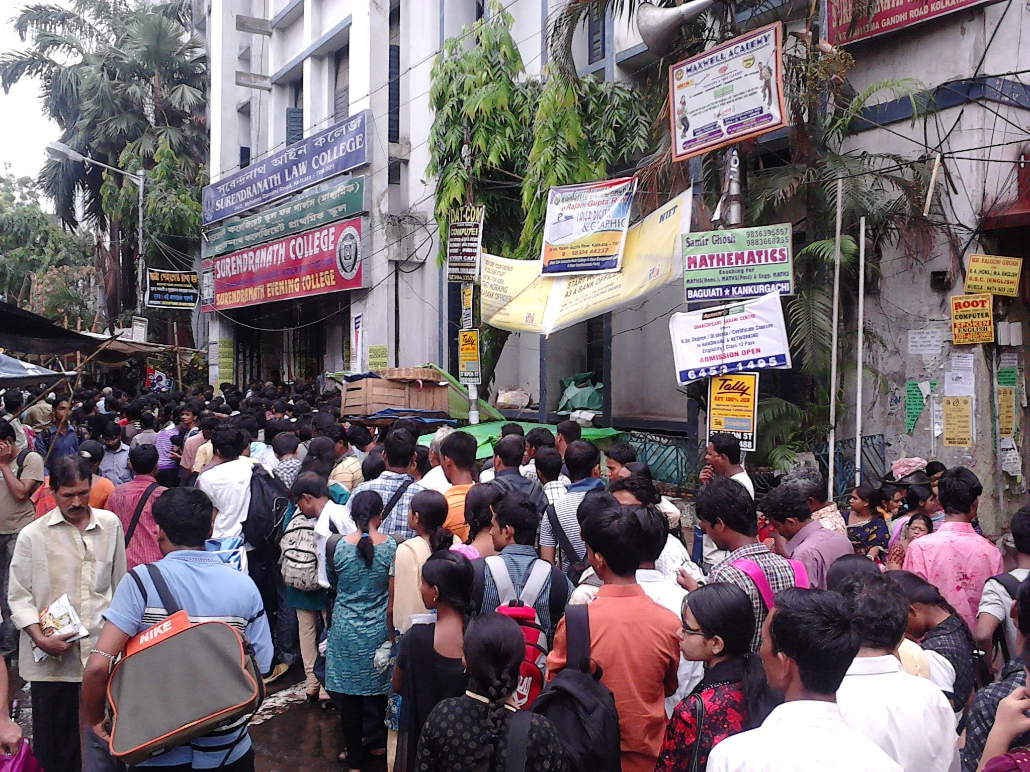 Filled-up form submission queue of students and their guardians for admission in various undergraduate degree courses, Kolkata.